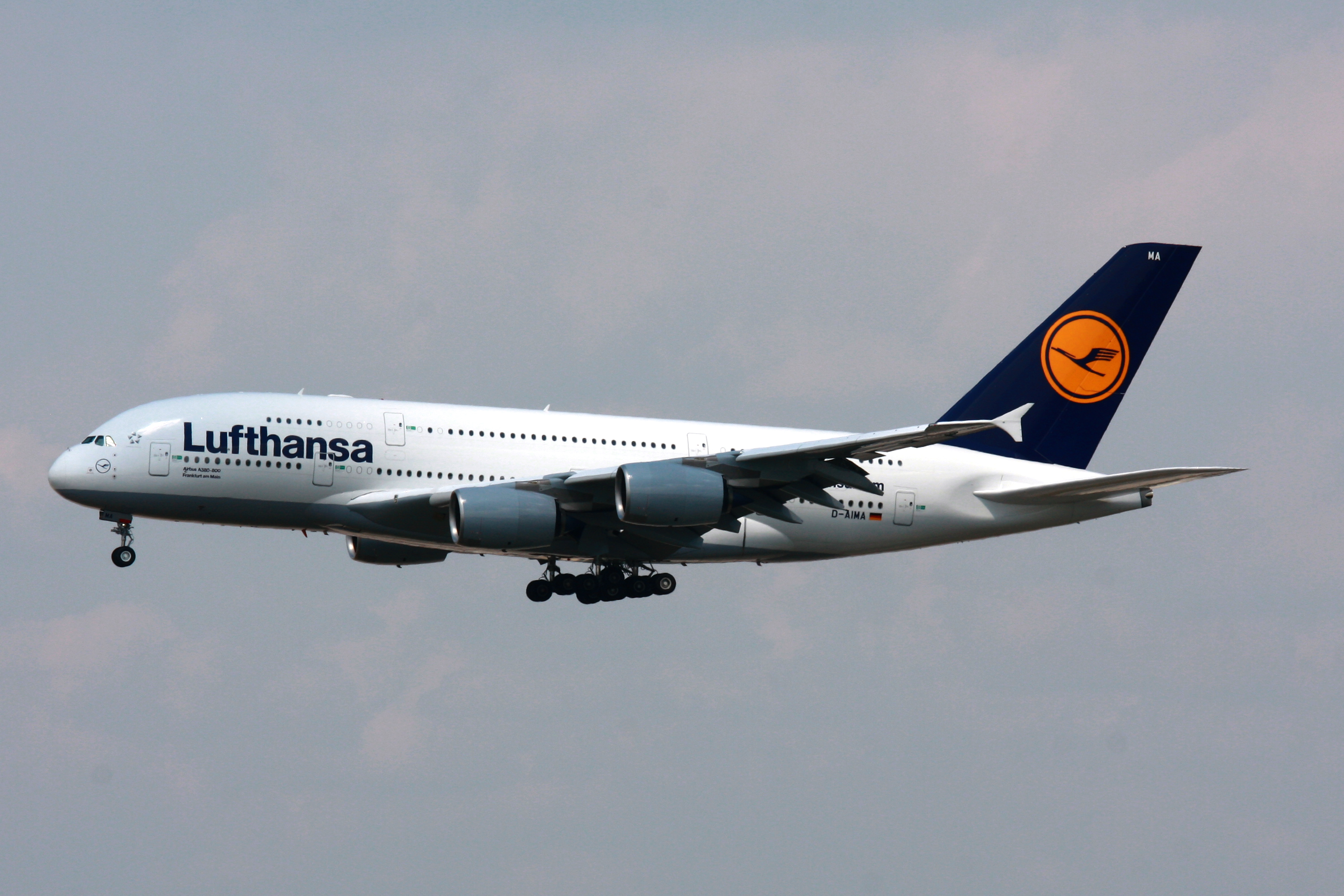 Lufthansa's first Airbus A380 landing at Frankfurt Airport